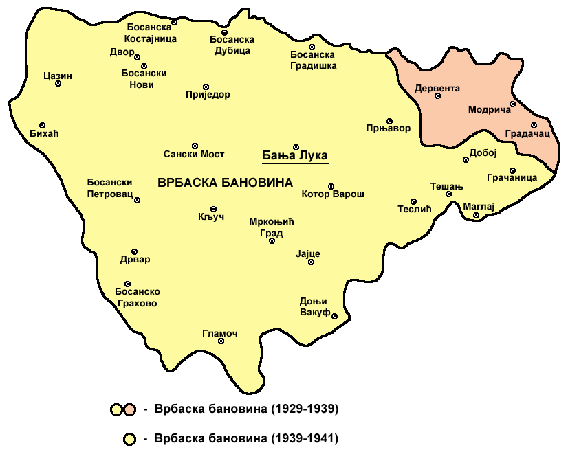 Vrbas banovina (province) of the Kingdom of Yugoslavia from 1929 to 1941.